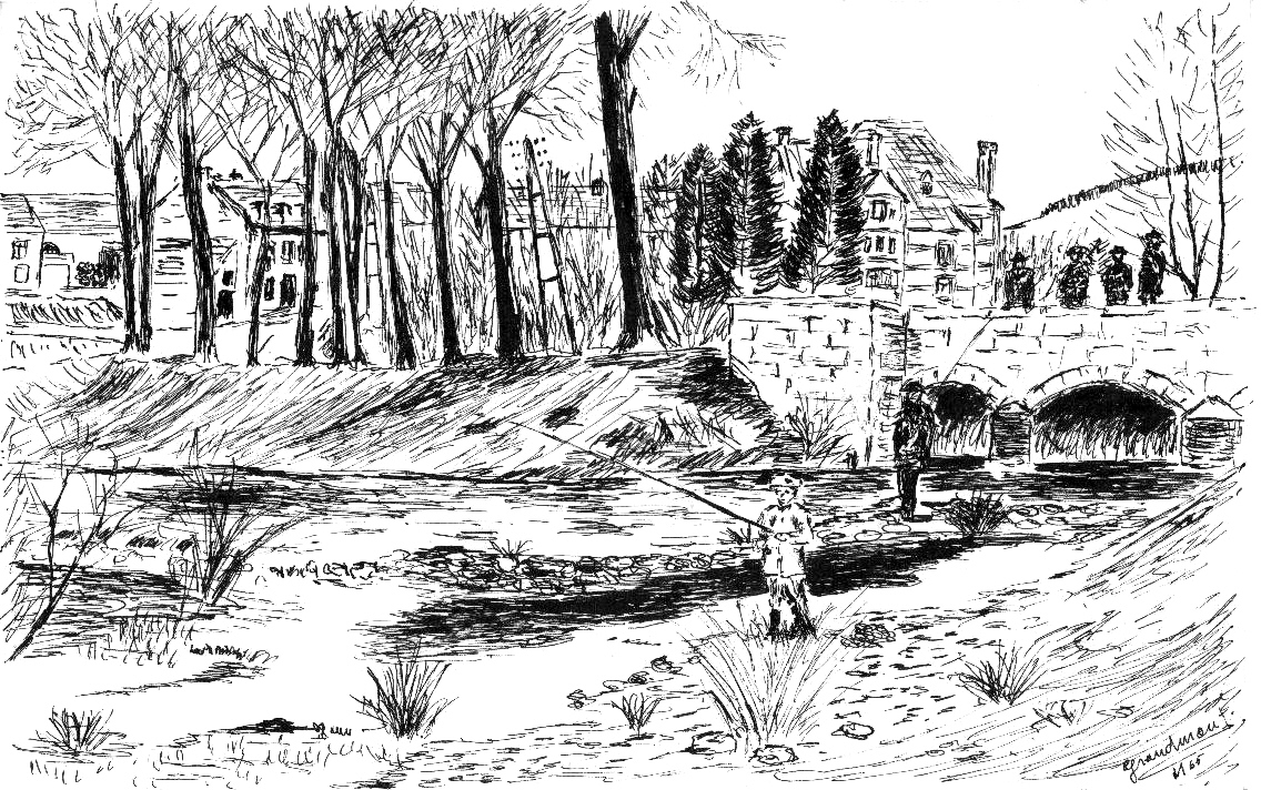 Forrières (Belgium), the old bridge (pont des « Bates ») on the L’homme river.